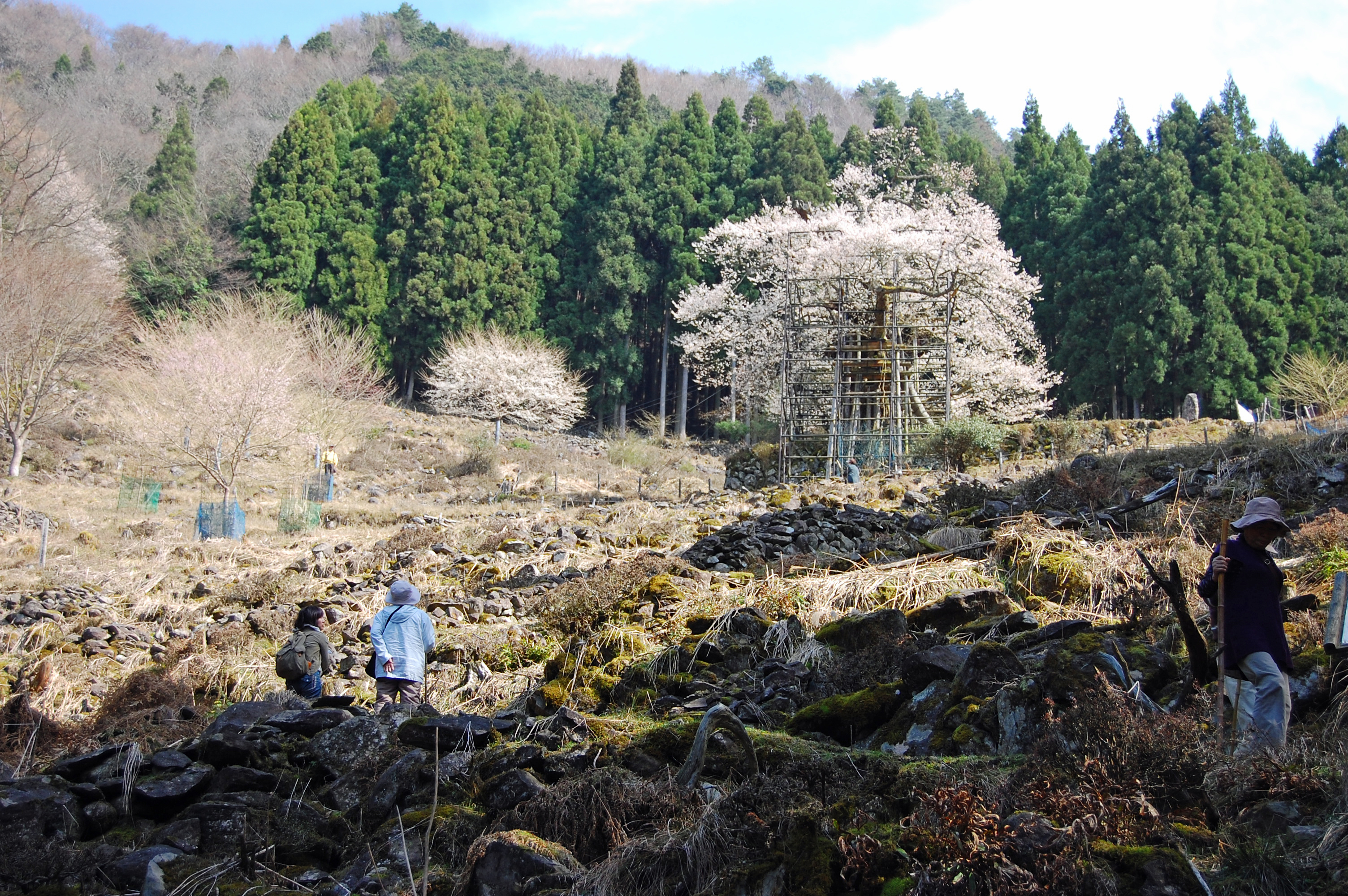 Japanese cherry